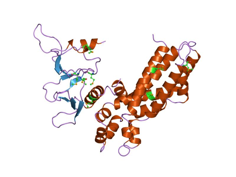 Cartoon representation of the molecular structure of protein registered with 1dbh code.